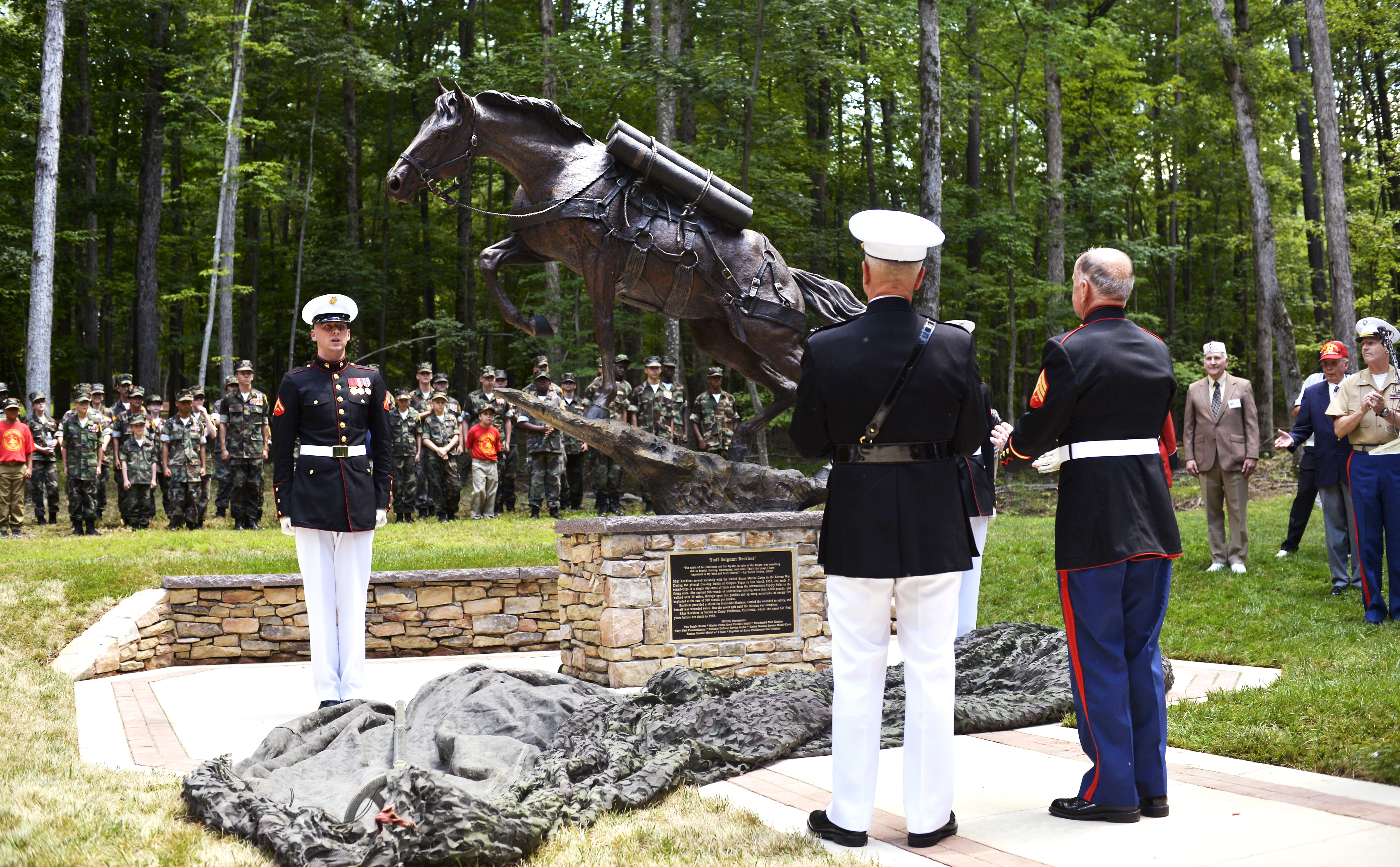 The Commandant of the Marine Corps, Gen. James F. Amos and U.S. Marine Corps Retired Sgt. Harold Wadley unveil the Monument for War Horse Staff Sgt. Reckless at the National Museum of the Marine Corps, Triangle, Va., July 26, 2013. The Monument Dedication Ceremony began inside the National Museum of the Marine Corps and the unveiling was conducted outside. (U.S. Marine Corps photo by Cpl. Christina O'Neil/Released) Unit: MCB Quantico Combat Camera